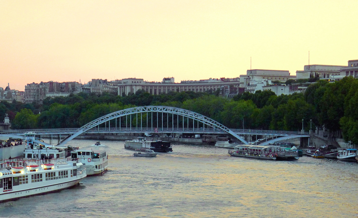 Passerelle Debilly - Paris